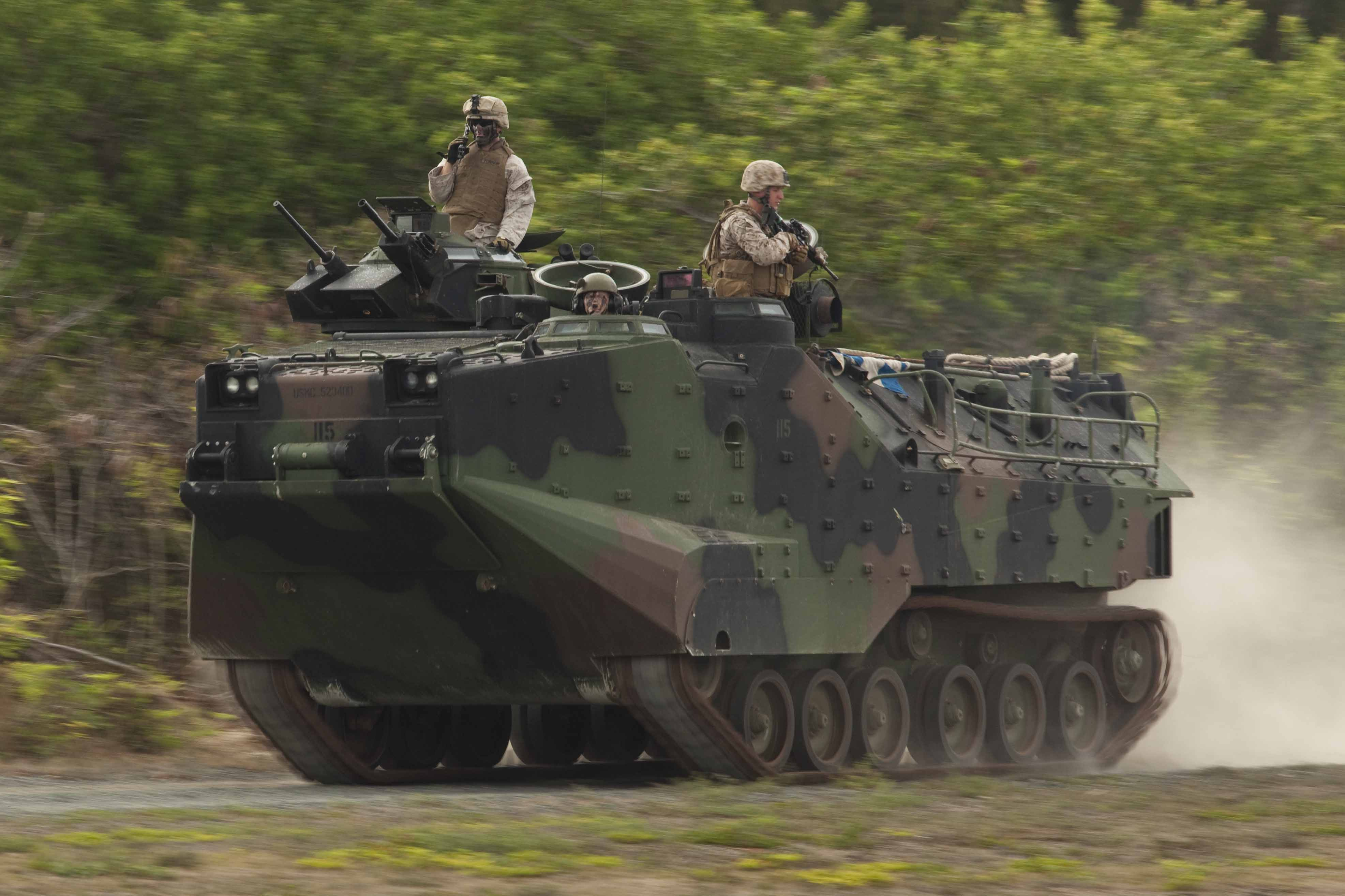 U.S. Marines assigned to 3rd Marine Regiment utilize amphibious assault vehicles to set up a cordon around a mock U.S. embassy during a noncombatant evacuation operation at Marine Corps Training Area Bellows, Hawaii, July 26. The NEO, an emergency evacuation involving the use of military forces and capabilities in order to provide aid, assistance and movement to safety of American citizens overseas, was conducted as part of interoperability training between coalition forces during the multi-national Exercise Rim of the Pacific 2010.